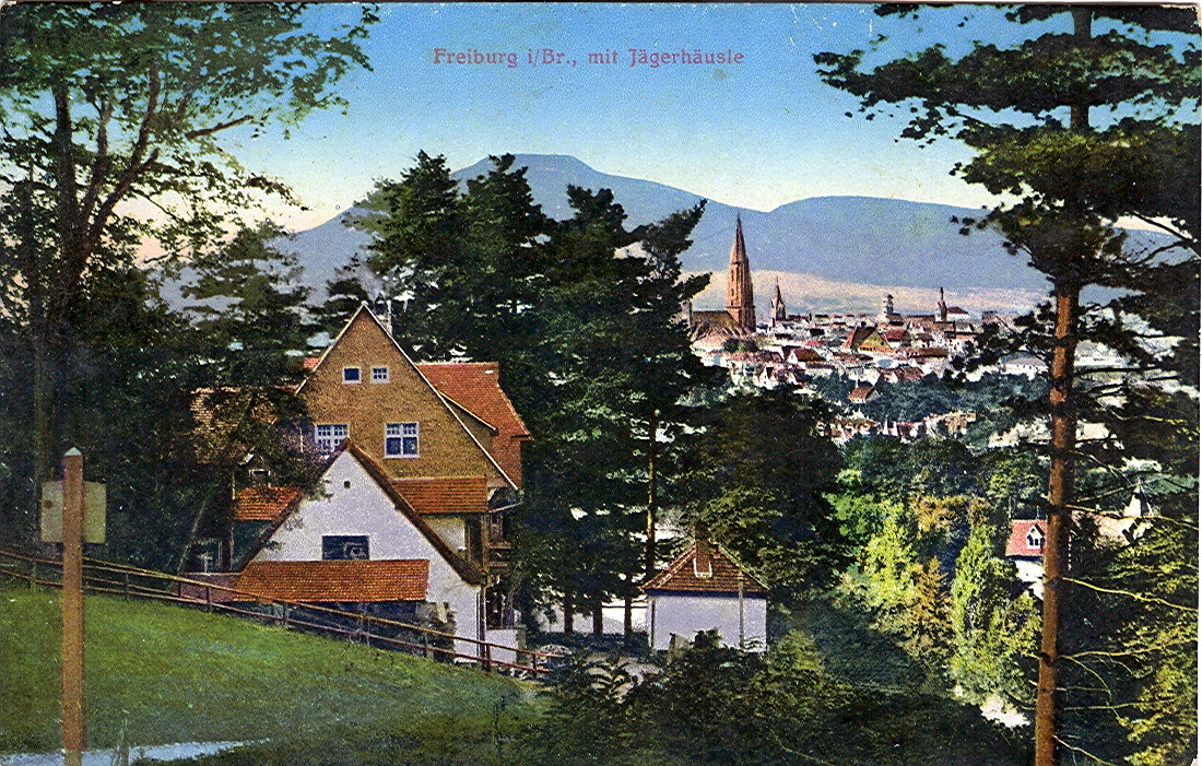 Postcard, dated 13.10.1914. Title:"Freiburg i.Br., with little hunter´s house".